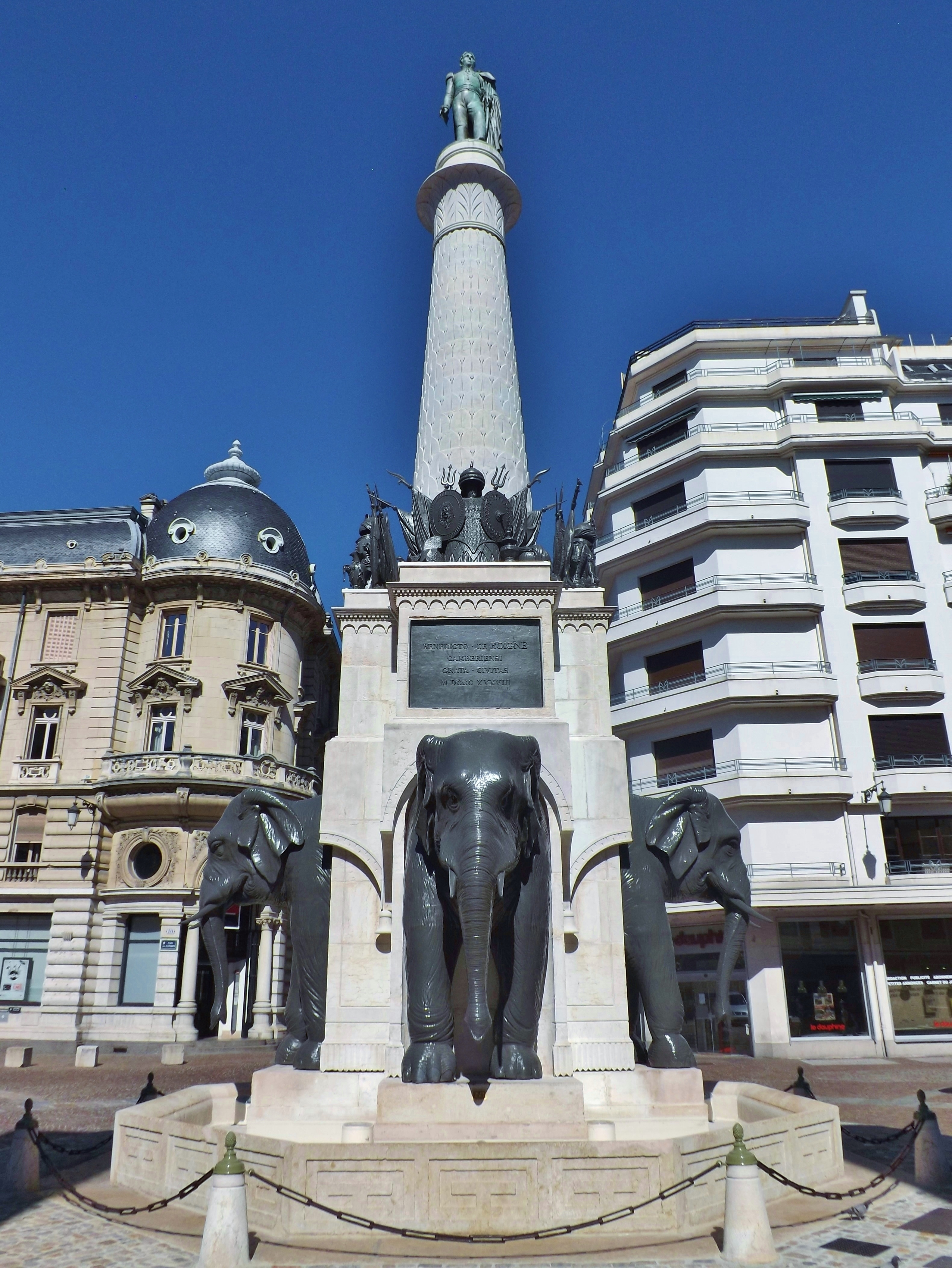 Sight of the fontaine des éléphants fountain of Chambéry, during the summer following its complete restoration, in Savoie, France.